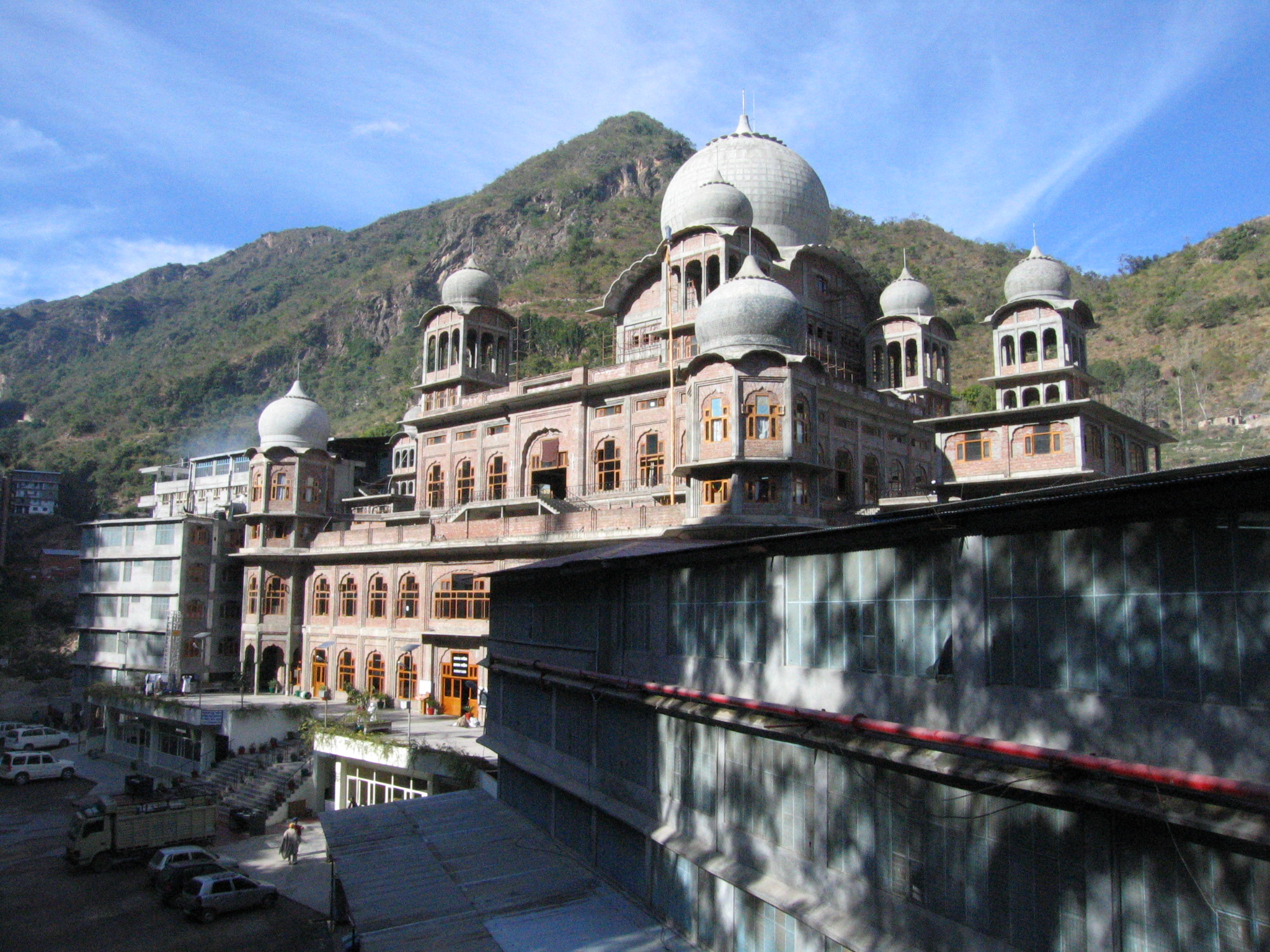 Darbar Sahib View